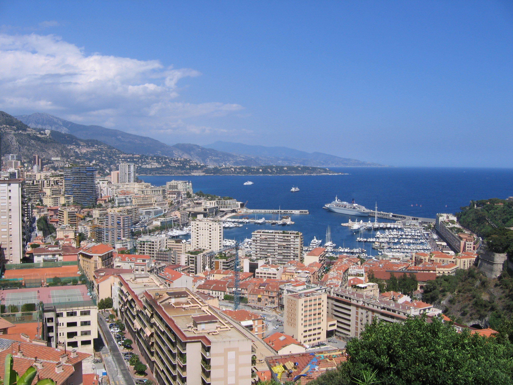 Description: Elevated view of Monte Carlo, Monaco Source: photo taken by Jh12 Date: 05 July 2005 Permission: released into public domain